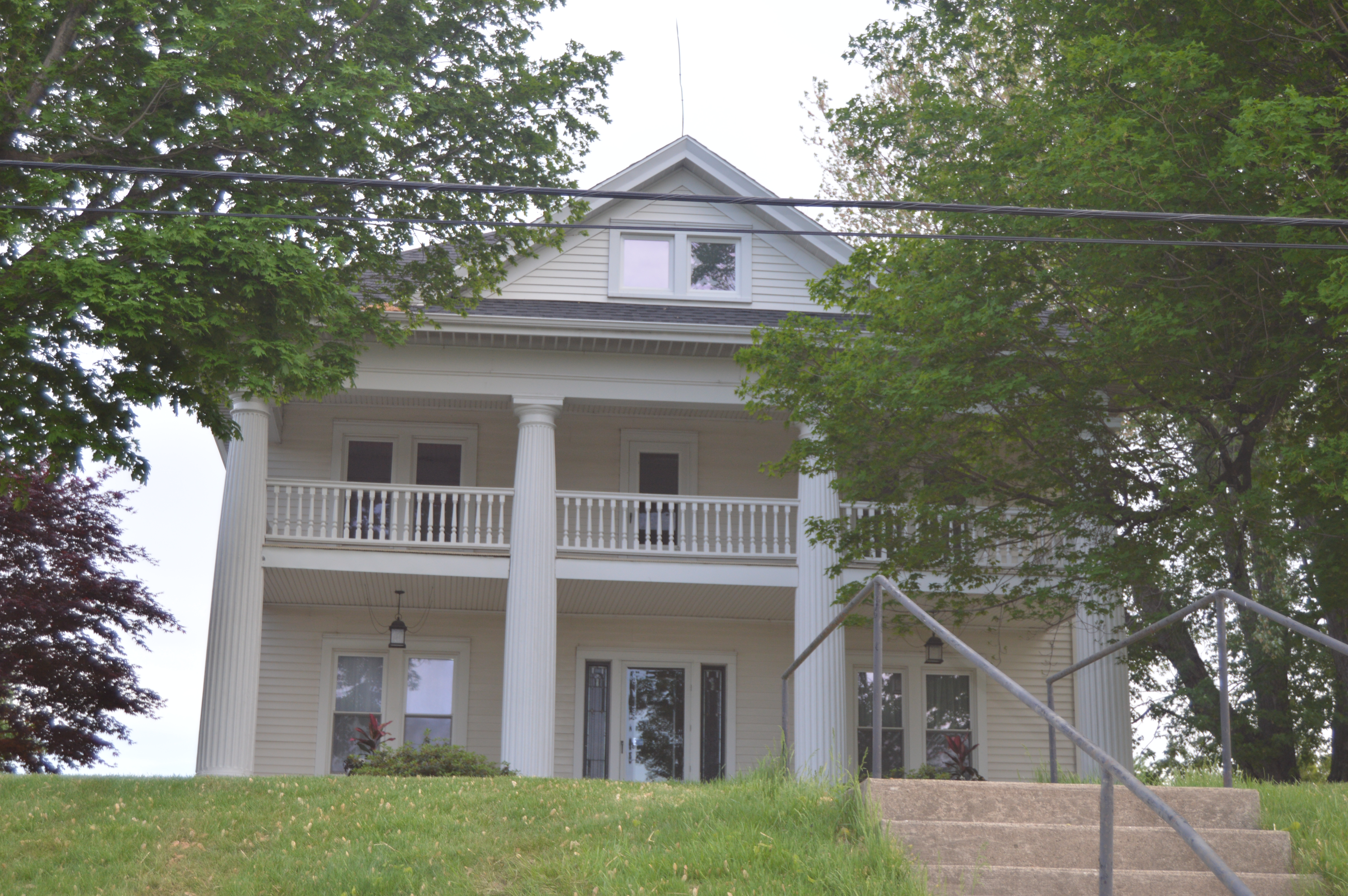 Front of the Taft Farmstead, located at riveway to the Power Farmstead, located on Rochester Road in Rochester, Illinois, United States. Built in 1906, it is listed on the National Register of Historic Places.